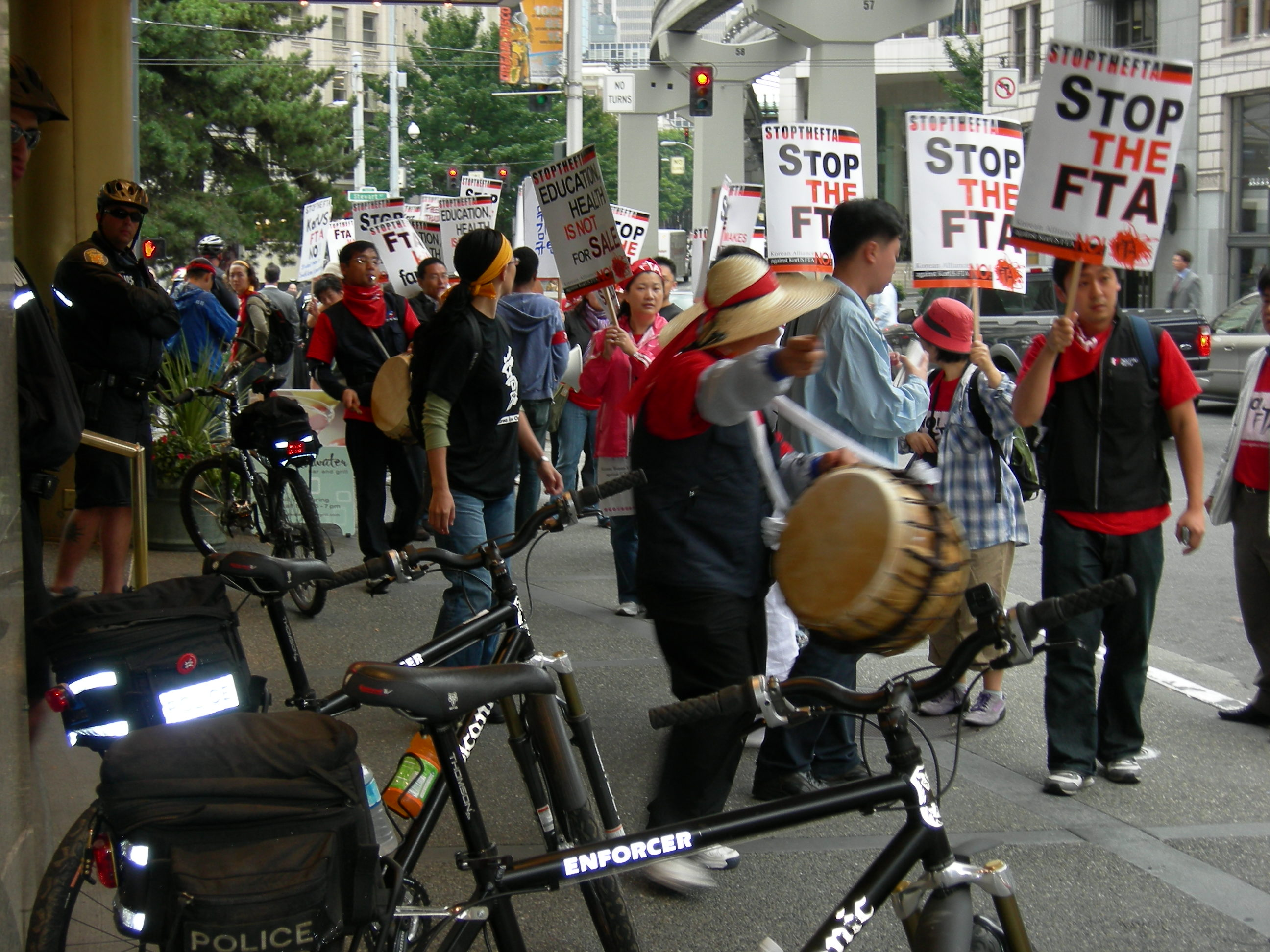 Protest against U.S.-South Korea Free Trade Area negotiations 5th and Stewart, Seattle, Washington, outside the Westin Hotel. Note police bicycles in foreground.